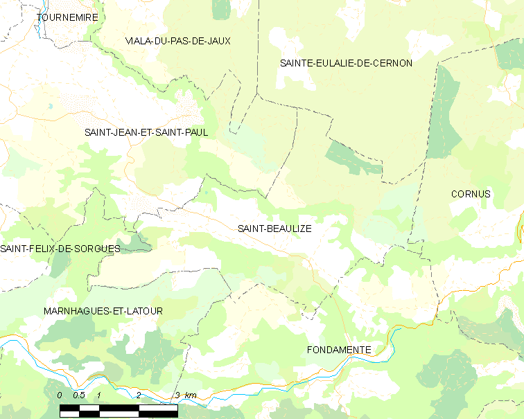 Map commune FR insee code 12212.png - Saint-Beaulize